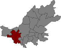 Location of Alcover in Alt Camp